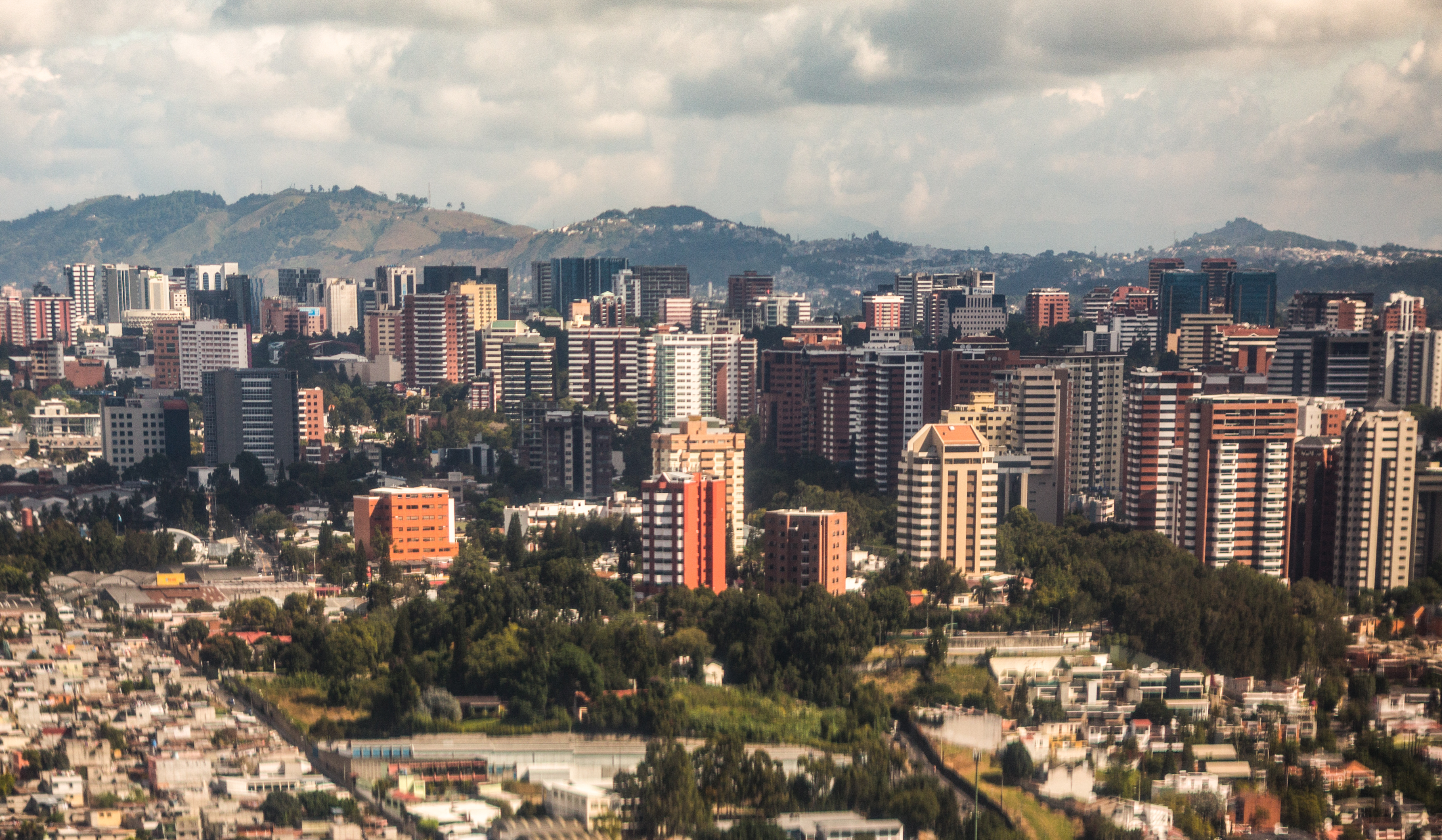 Zone 13, one of several skylines in Guatemala City